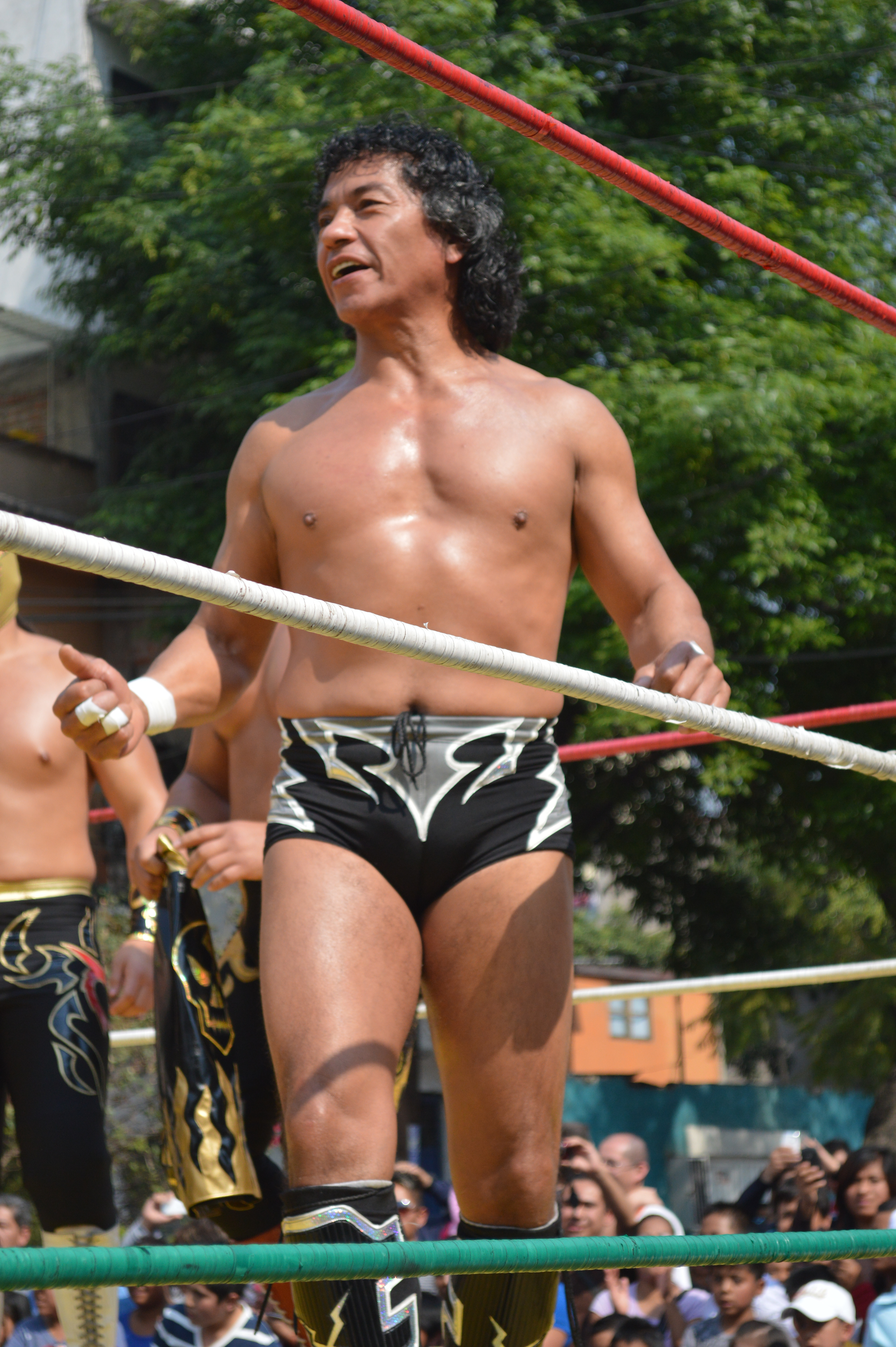 Negro Casas at CMLL lucha libre event part of Festival Día de Reyes Territorial Obrera Doctores in Mexico City